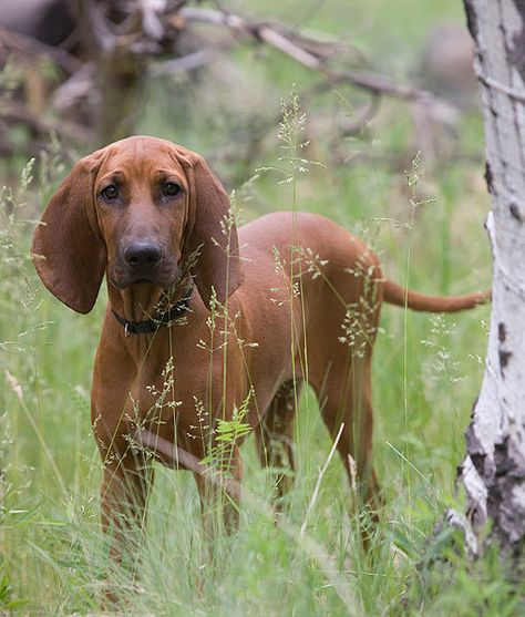 A female Redbone in the field.